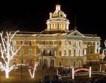 The Harrison County Courthouse located at 32.545° -94.3673° in Marshall, Texas, United States.